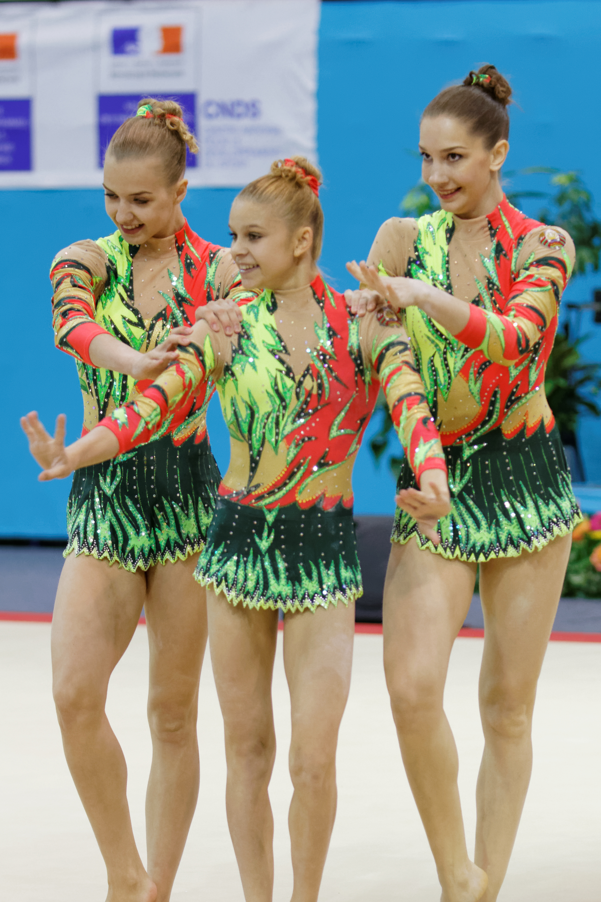 2014 Acrobatic Gymnastics World Championships, 10th-12 July, Levallois-Perret, France. Qualifications: women's group. Belarus 2.